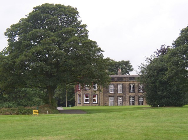 Fixby Hall, Fixby. Fixby Hall is a Georgian house of two storeys; the east front has a four-bay centre with two flanking canted bay-windows (the one on the right hidden by trees in this photo). It was the home of a branch of the Thornhill family, and is now the clubhouse of Huddersfield Golf Club.